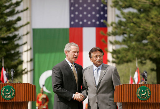 President George W. Bush and Pakistan President Pervez Musharraf stand together following their joint news conference at Aiwan-e-Sadr in Islamabad, Pakistan, Saturday, March 4, 2006.